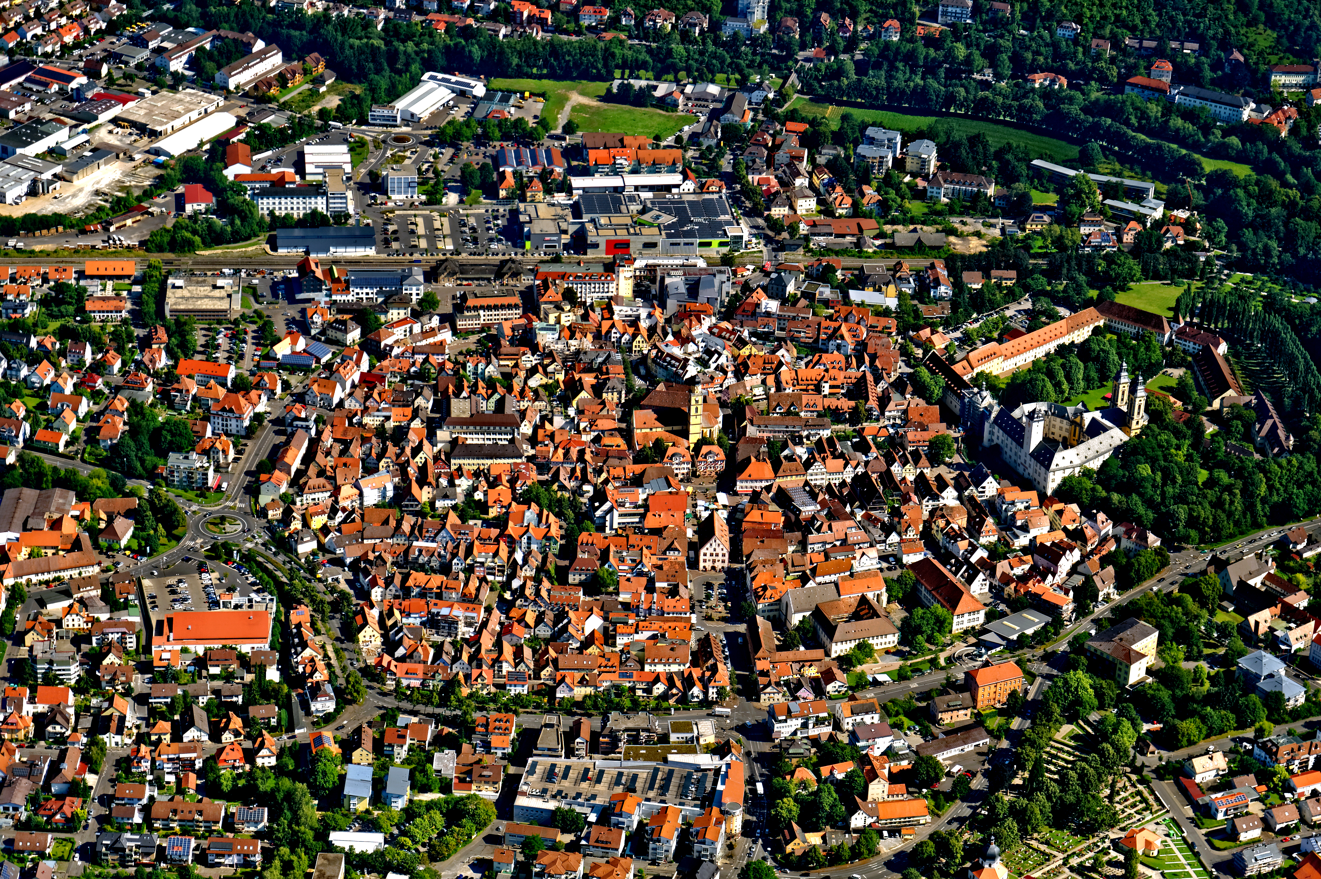 Aerial Photos of Bad Mergentheim